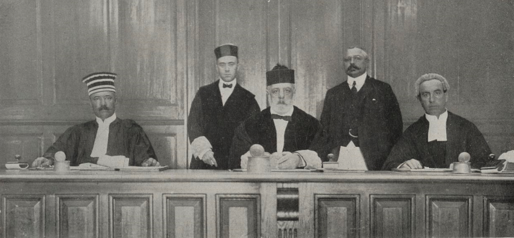 Photograph showing the members of the New Hebrides Joint Court in 1914. Seated left, the French judge, right, the British judge, center, the President of the court, by convention a judge from the Spanish judiciary (Count de Buena Esperanza in 1914) chosen by the king of Spain. Taken from the bi-monthly La Dépêche Coloniale, Paris, 28 February 1914.